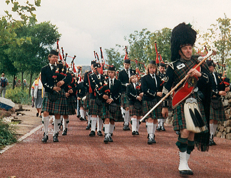 Garden Festival, Glasgow, Scotland